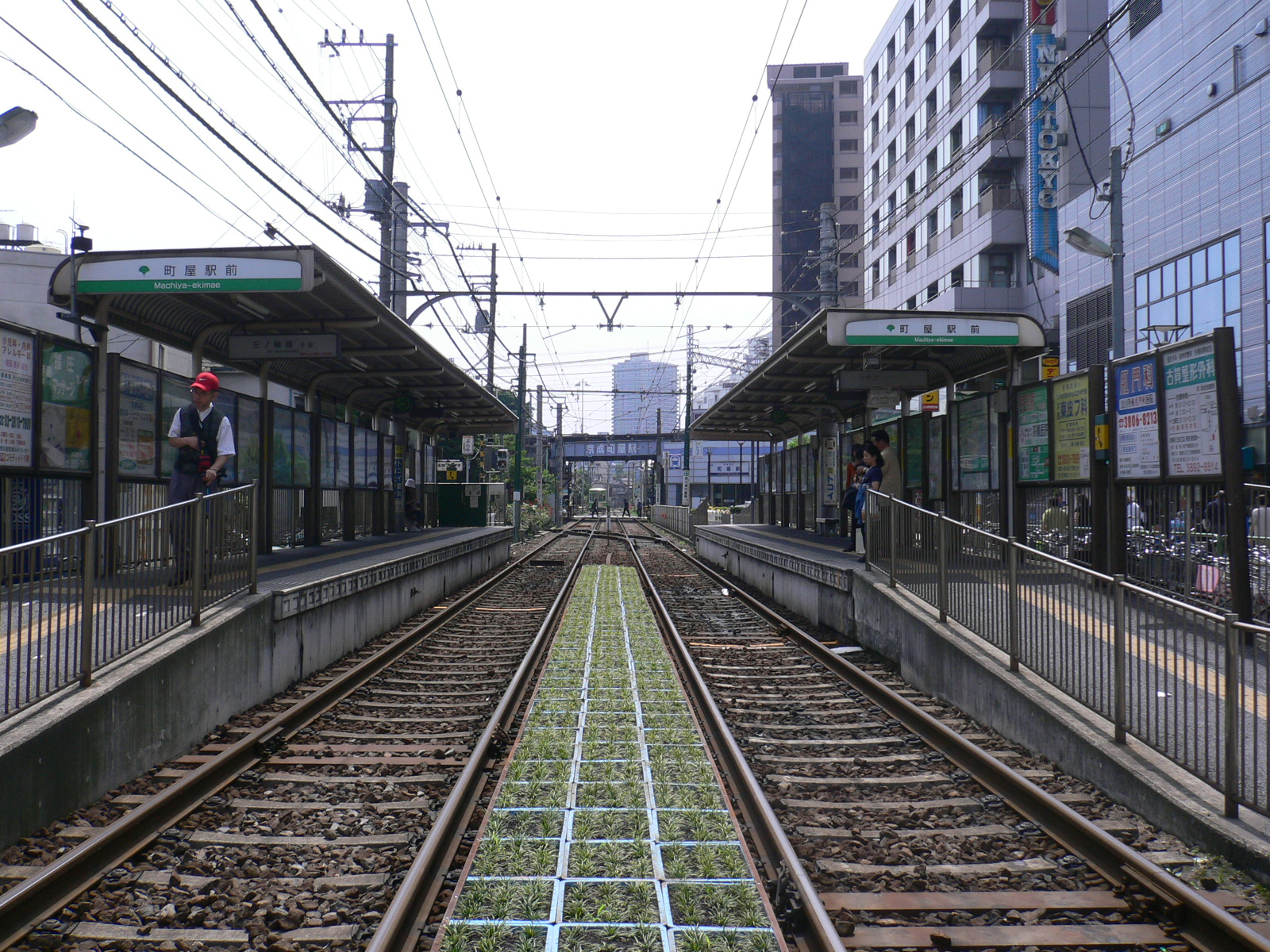 Machiya station square Station (町屋駅前駅) and Machiya station (町屋駅) in Arakawa W, Tokyo M.